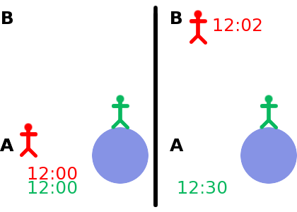 A special problem of the twin paradox